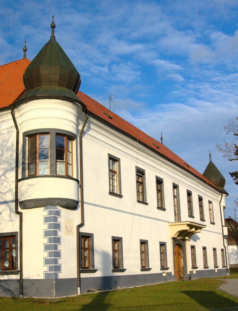 Manour house in Radošina, Slovakia